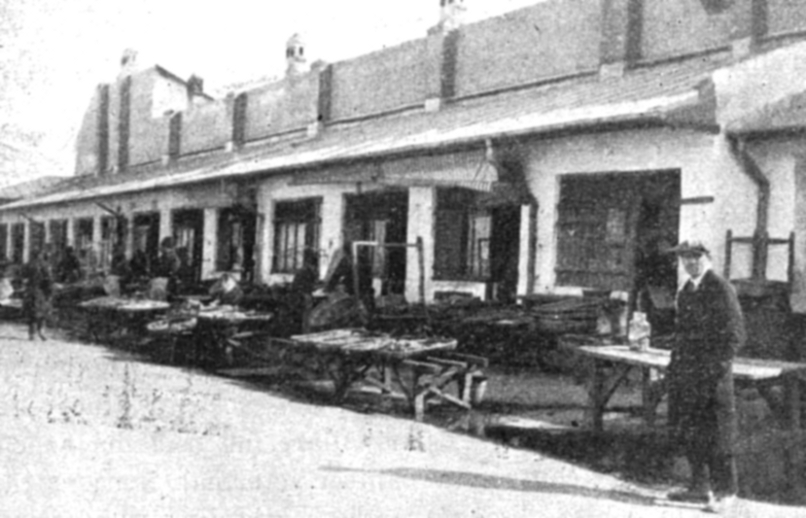 The fish market section of Obor, Bucharest.